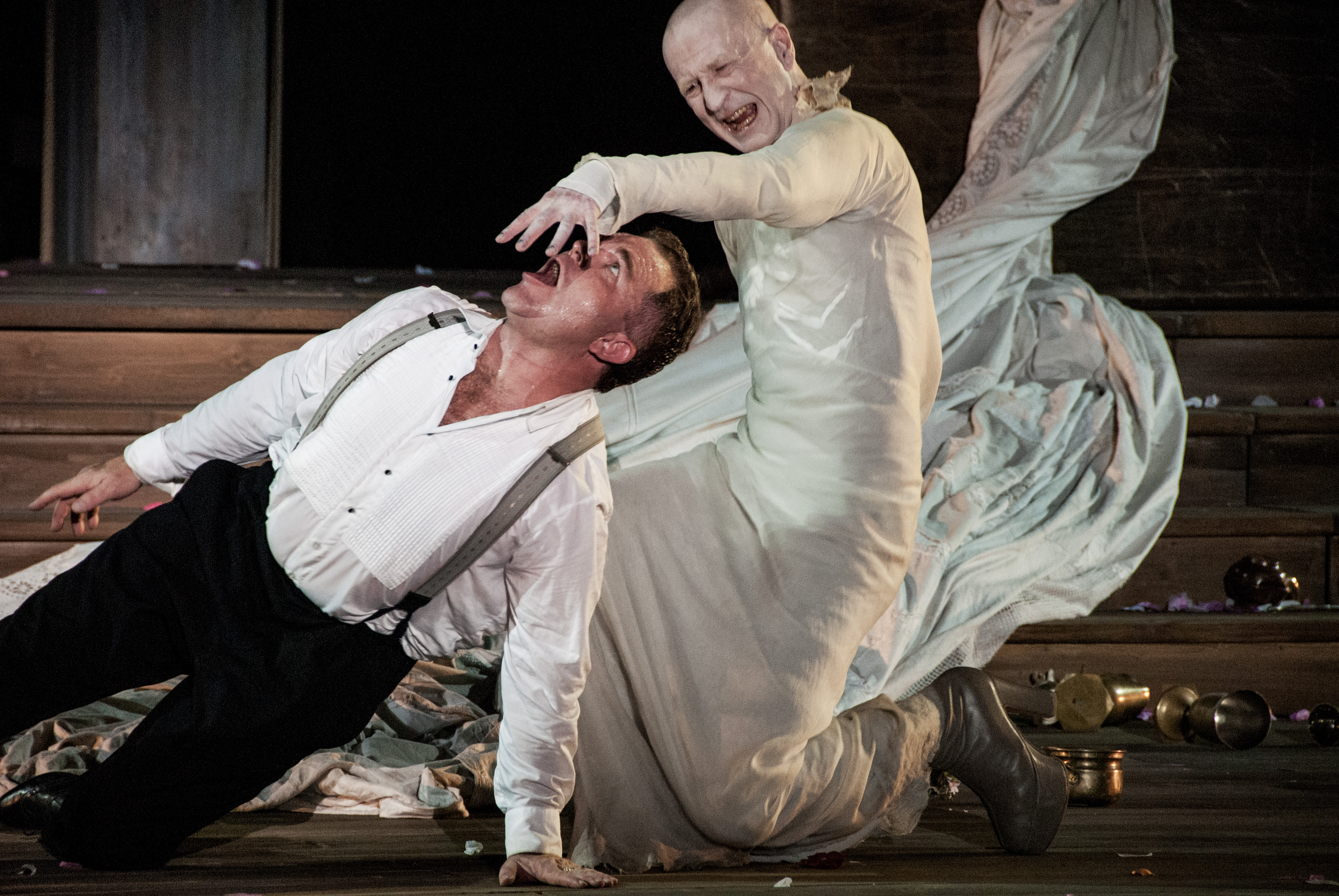 Jedermann und der Tod (Cornelius Obonya und Peter Lehmeier), Salzburger Festspiele 2014